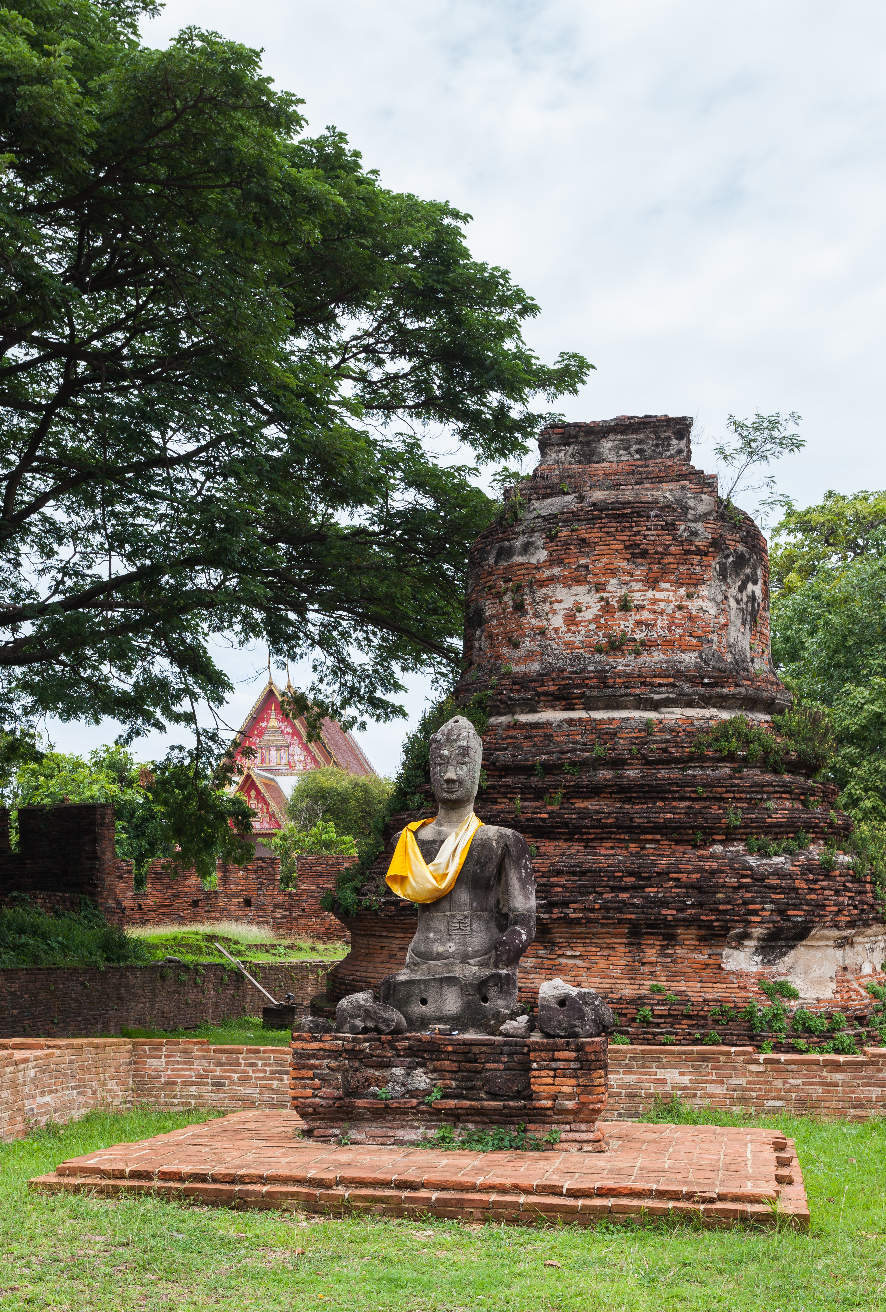 Templo Phra Si Sanphet, Ayutthaya, Tailandia